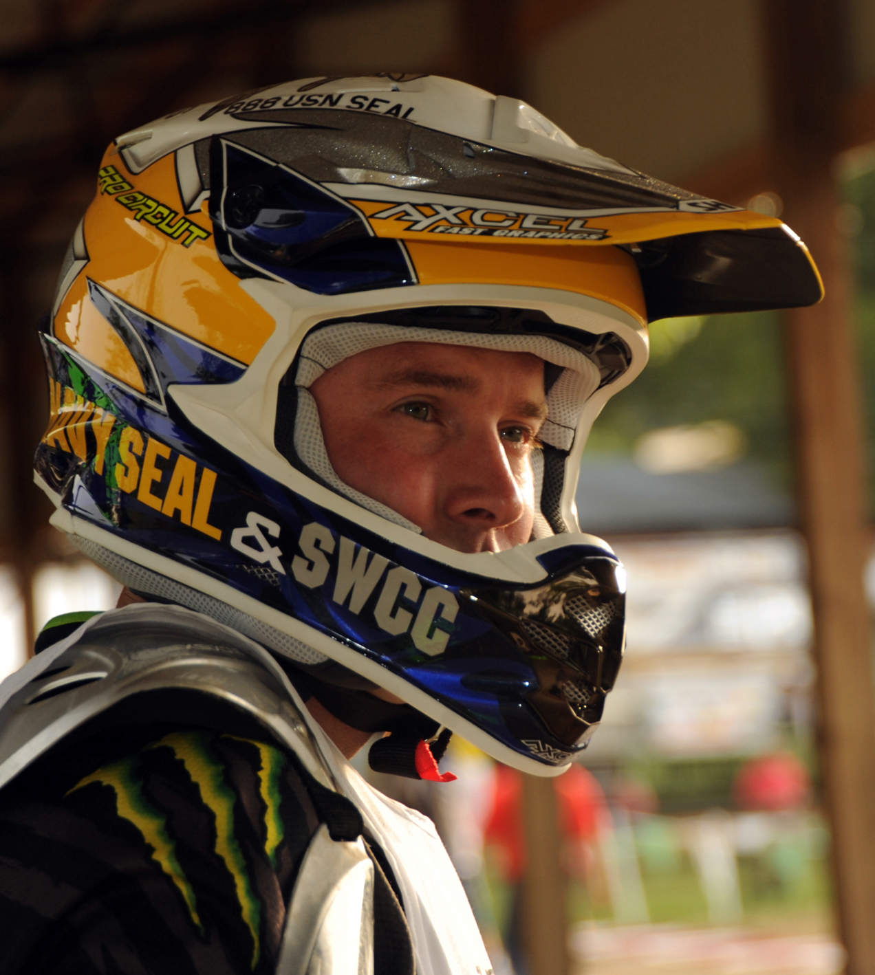 HURRICANE MILLS, Tenn. (Aug. 5, 2009) Special Warfare Operator 1st Class (SEAL) Stacey Virgin mentally prepares for his first event, as one of 1,386 racers qualified to compete in the Air Nautiques Amateur National Motocross championships. Country singer Loretta Lynn hosted the event at her ranch. (U.S. Navy photo by Chief Mass Communication Specialist Jeremy L. Wood/Released)